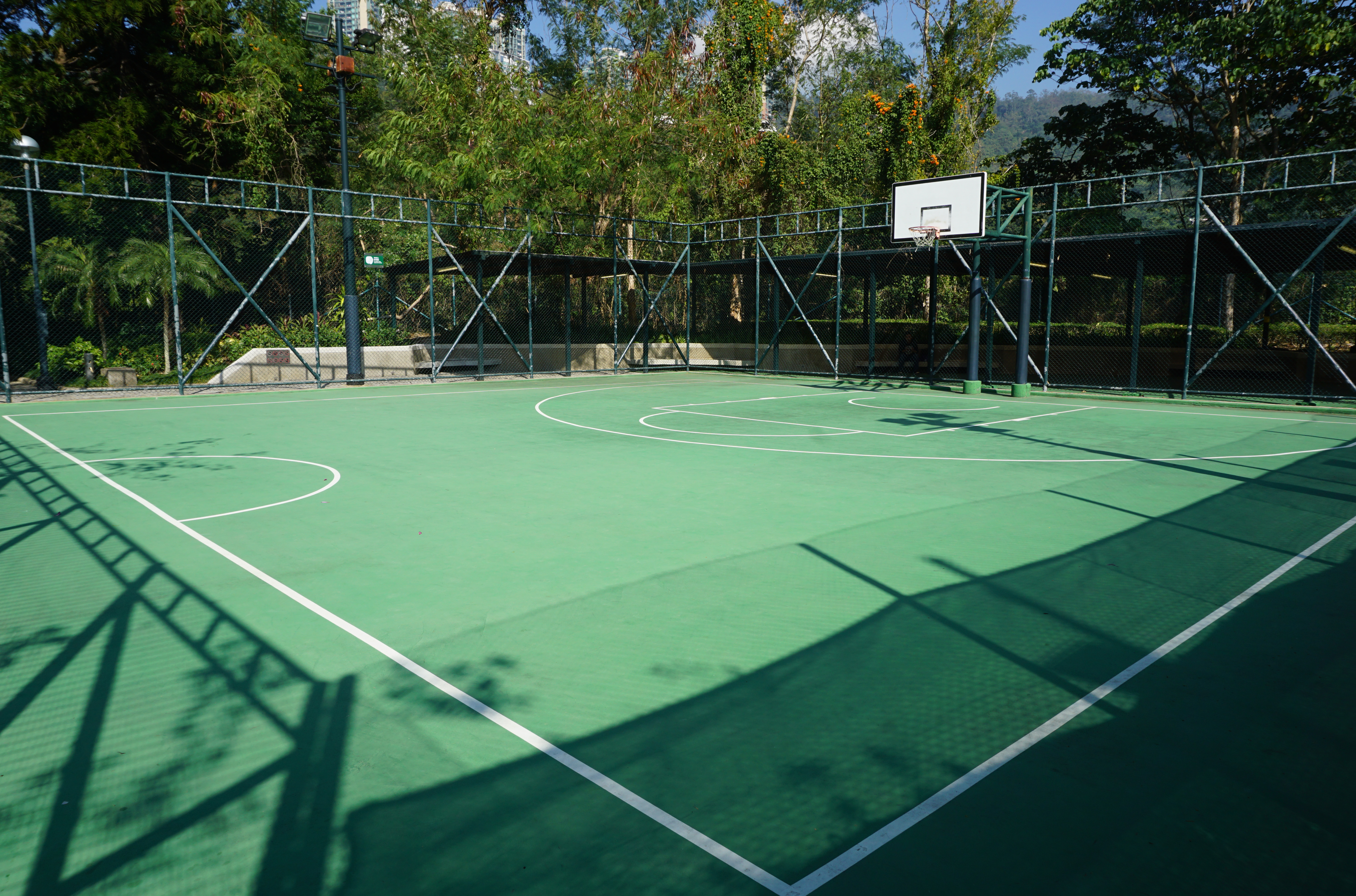 Tsuen King Circuit Playground in Tsuen Wan, Hong Kong.